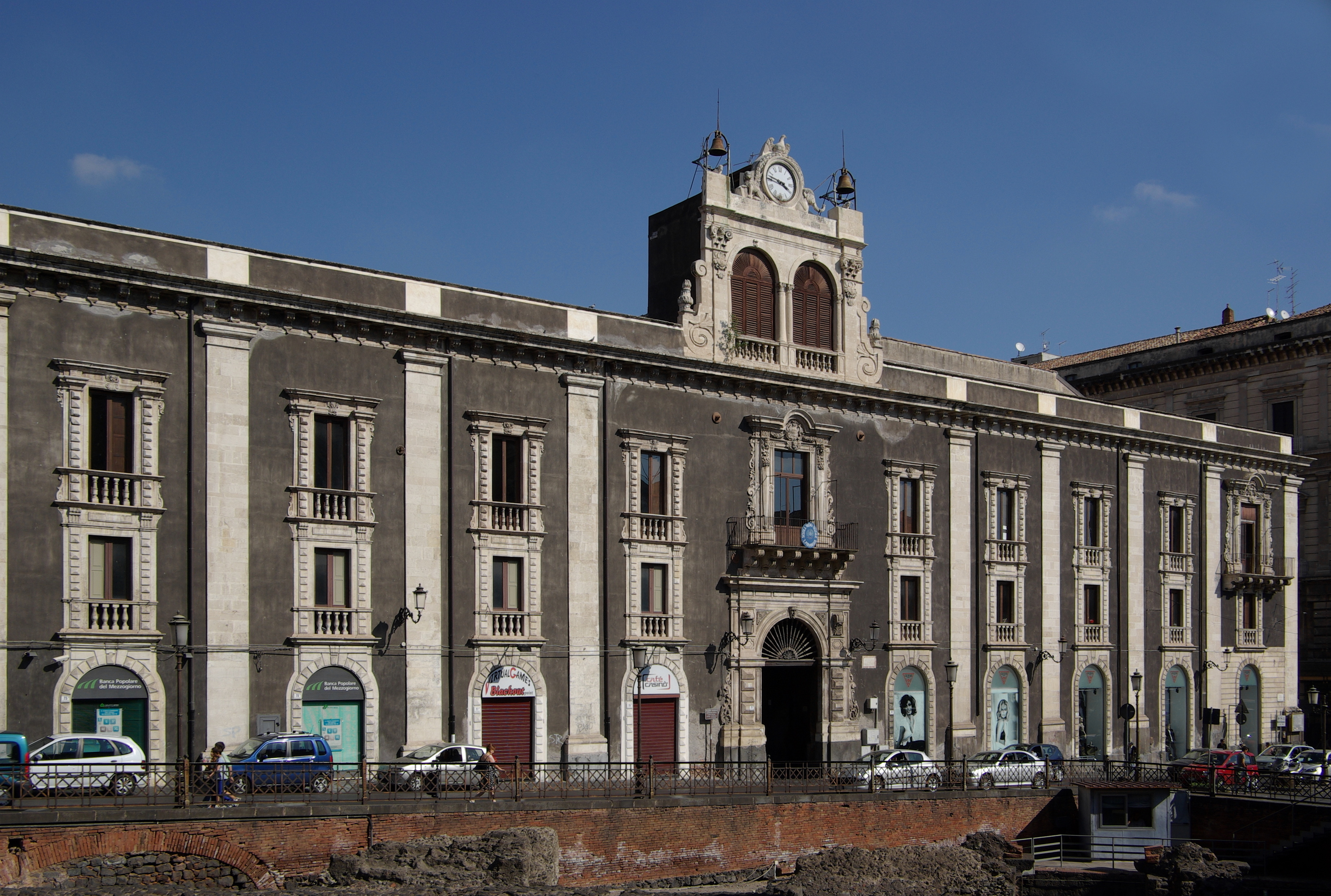 Italy, Sicily, Catanaia, Piazza Stesicoro, Palazzo Tezzano